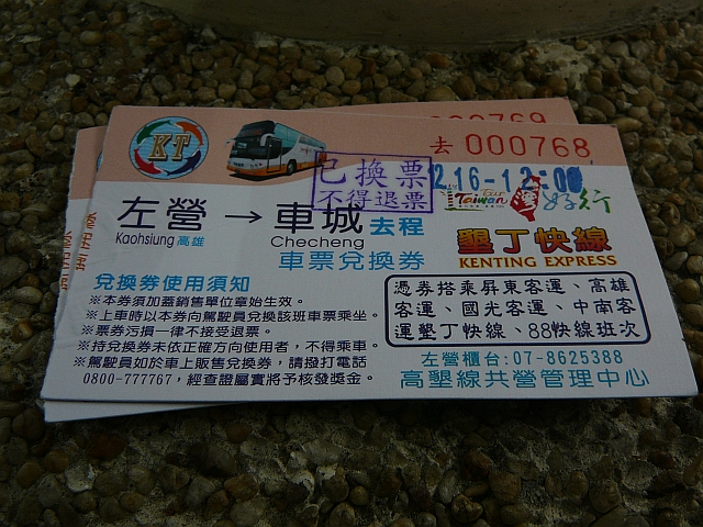 K.P.P. Taiwan PAss, Pingtung Bus Ticket